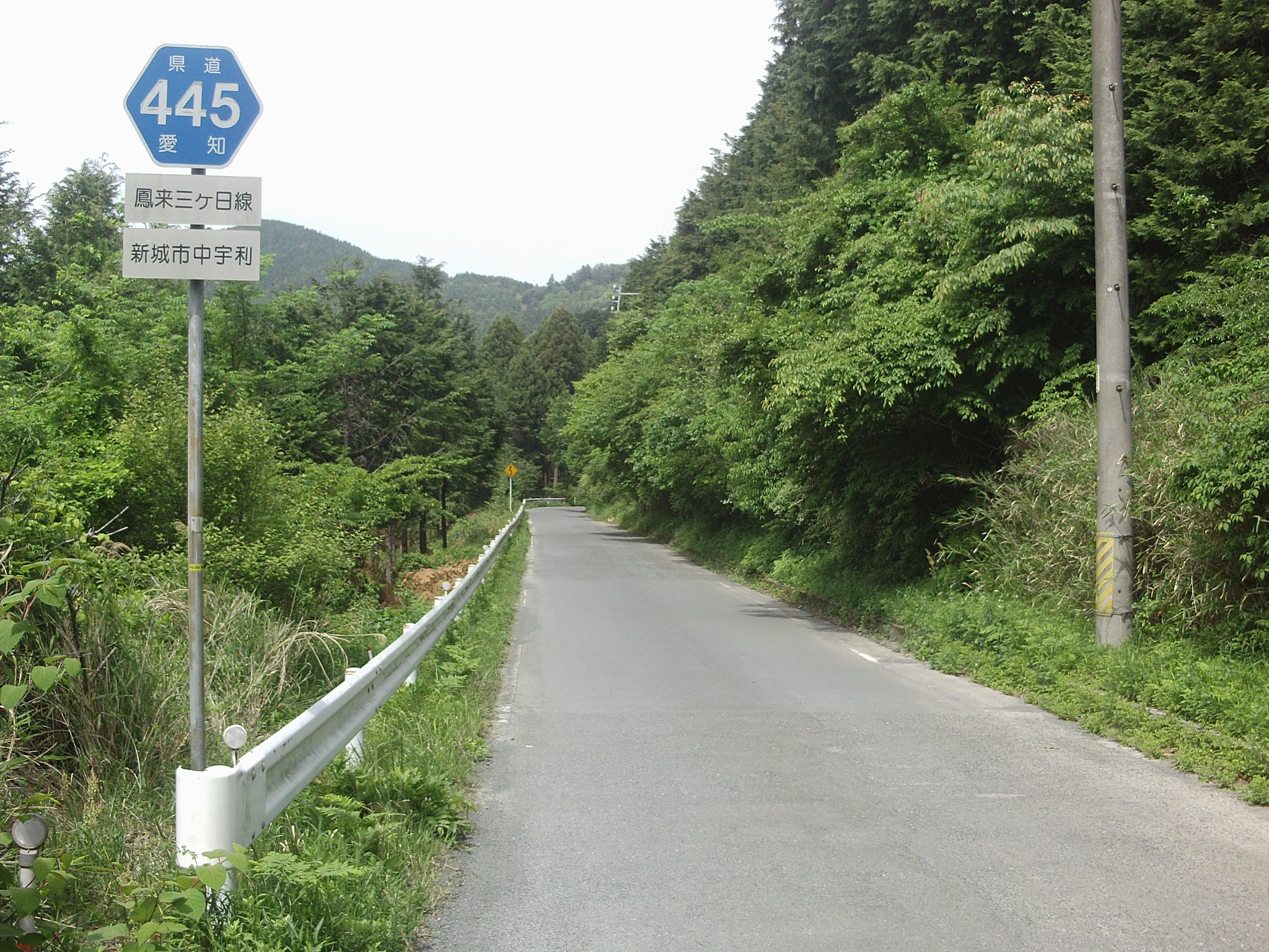 Aichi prefectural road No.445 in Nakauri, Shinshiro, Aichi.